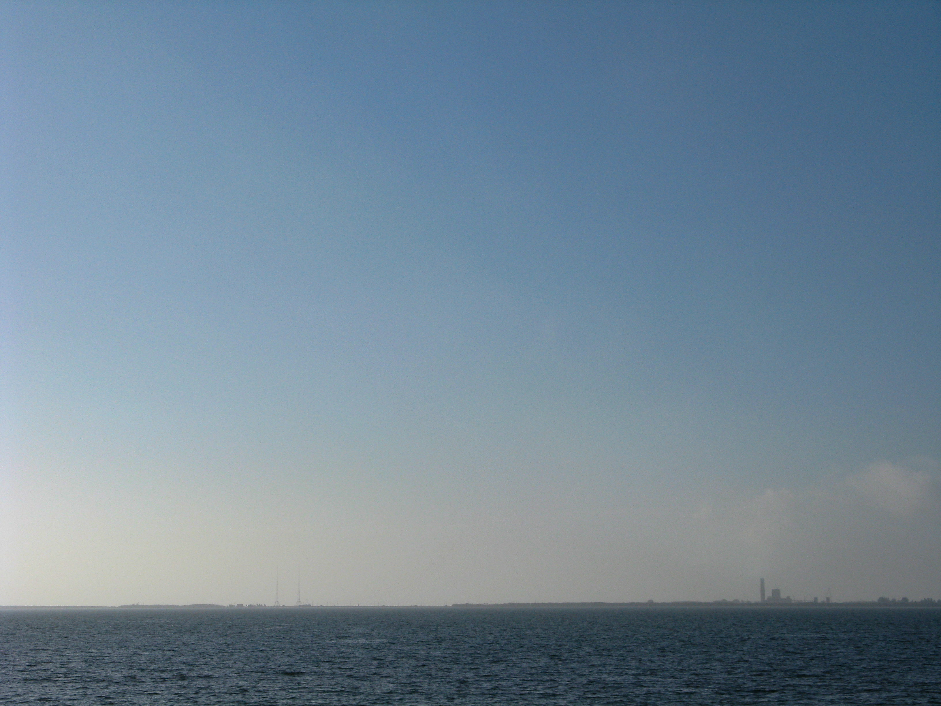 A view of Tampa Bay from I-275, looking south.